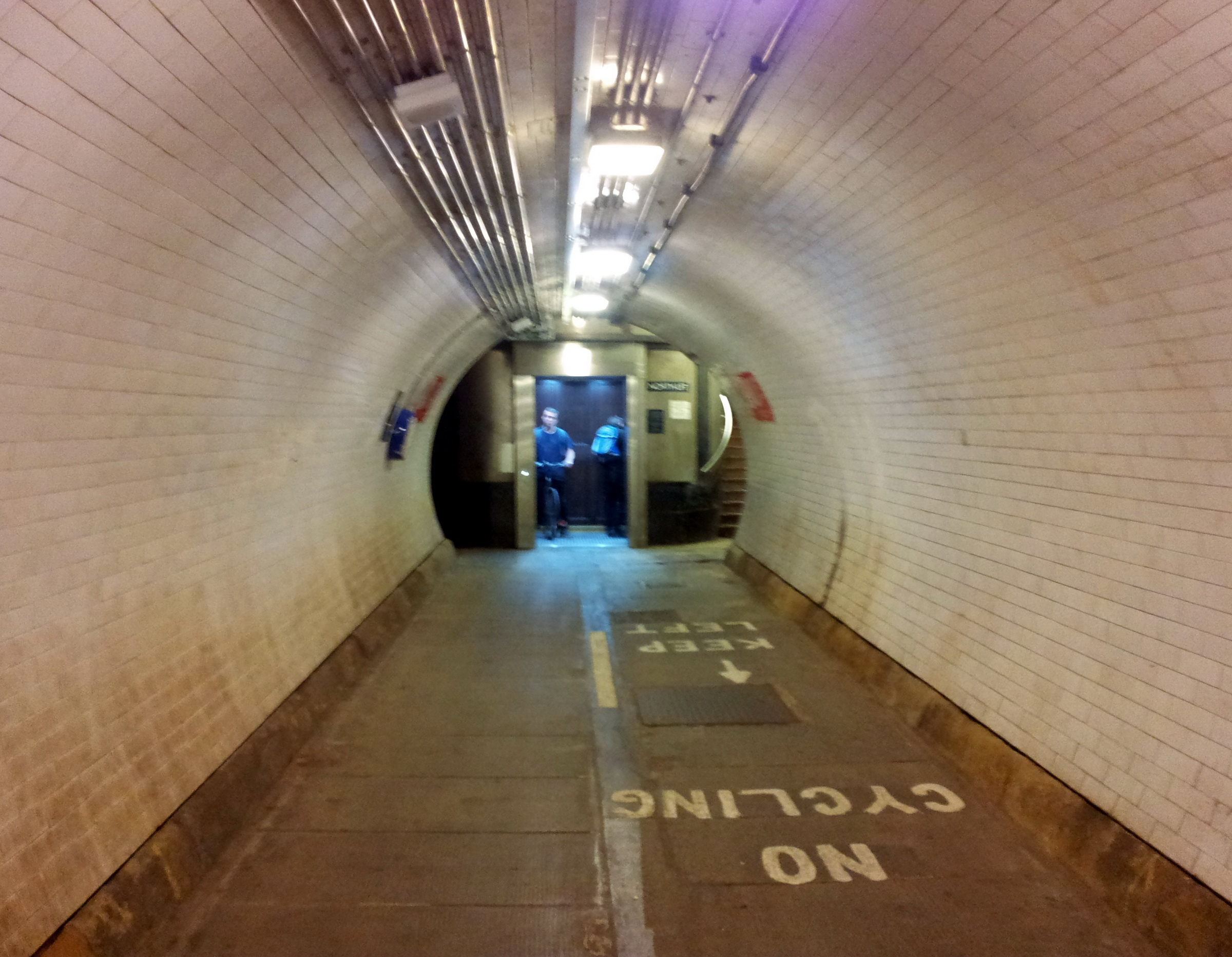 Interior view of the Woolwich Foot Tunnel under the river Thames between Woolwich and North Woolwich.